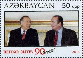 The 90th Ann. of National Leader Heydar Aliyev.